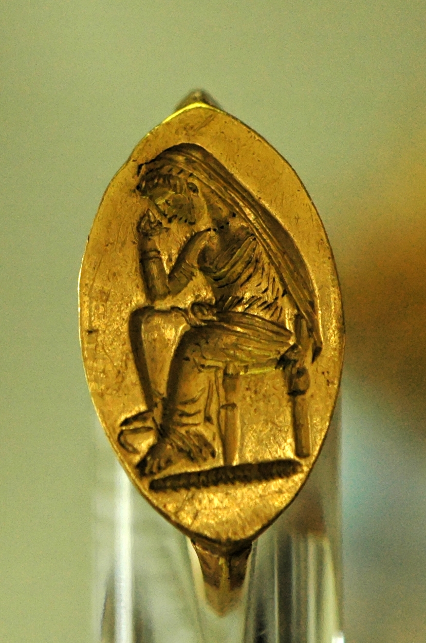 Gold ring representing Penelope waiting for Odysseus. Syria, last quarter of the 5th century BC.